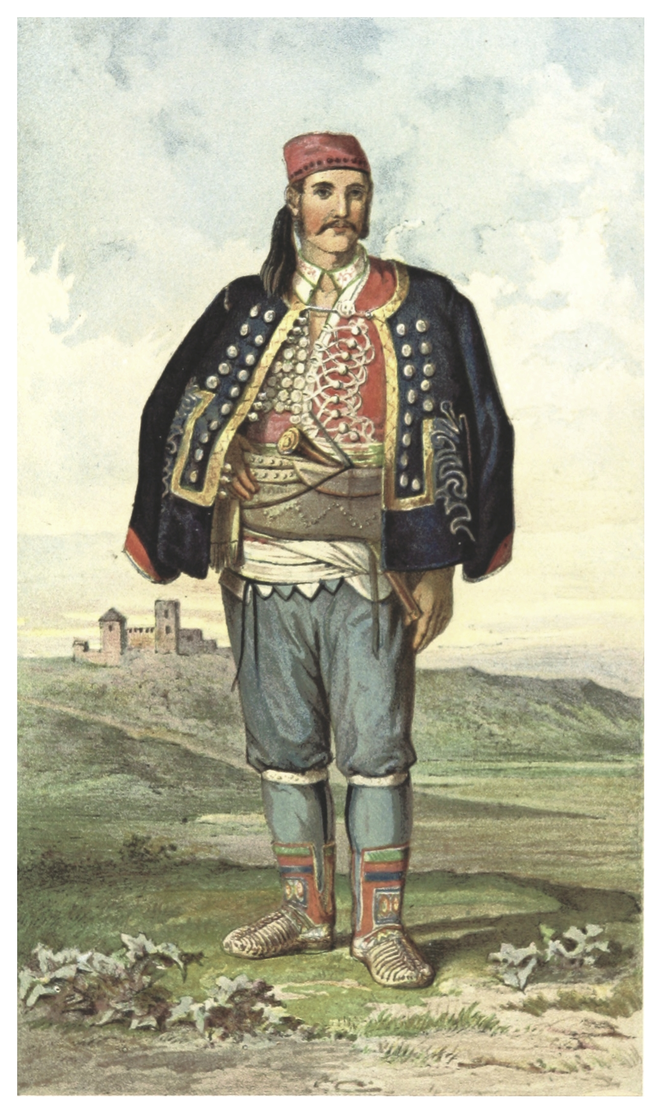 Image extracted from page 53 of Die Serben an der Adria. Ihre Typen und Trachten. (1870) by Louis Salvator, Erzherzog von Österreich. Original held and digitised by the British Library. Copied from Flickr. Note: The colours, contrast and appearance of these illustrations are unlikely to be true to life. They are derived from scanned images that have been enhanced for machine interpretation and have been altered from their originals.